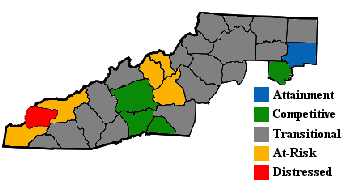 Map showing Appalachian Regional Commission economic designations for "Appalachian" North Carolina. The ARC gives each county one of five designations: "Attainment," "Competitive," "Transitional," "At-Risk," or "Distressed," with "Attainment" indicating the most prosperous counties, and "Distressed" indicating the most economically troubled. The data is based primarily on three factors- unemployment, income per capita, and poverty rate. The map is based on 2000-2003 figures.